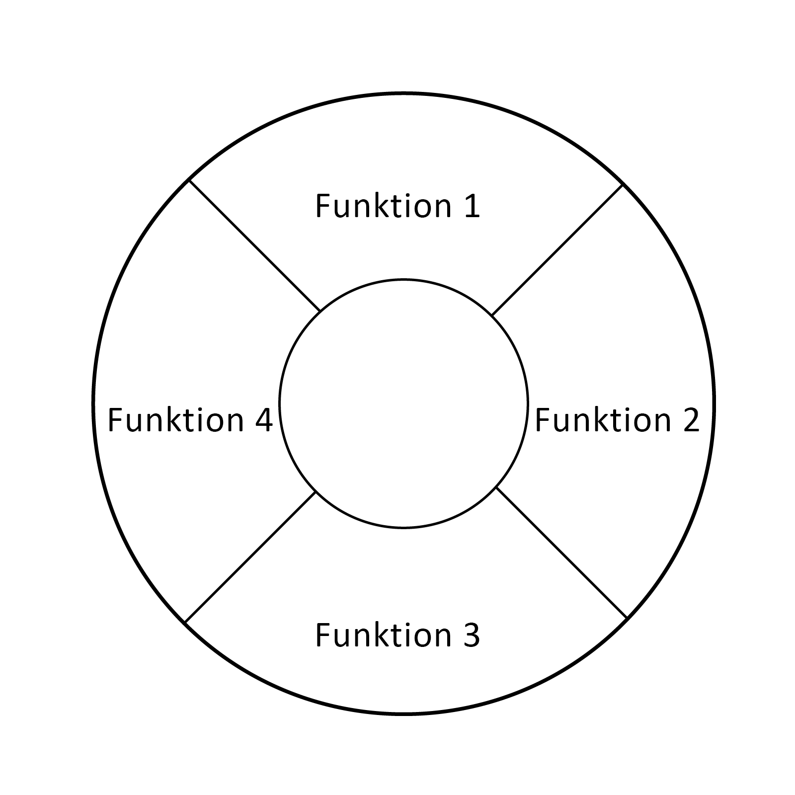 Example of a radial menu. The sectors have German labeling.